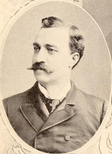 Portrait of New York state senator Henry Wayland Hill Other information none